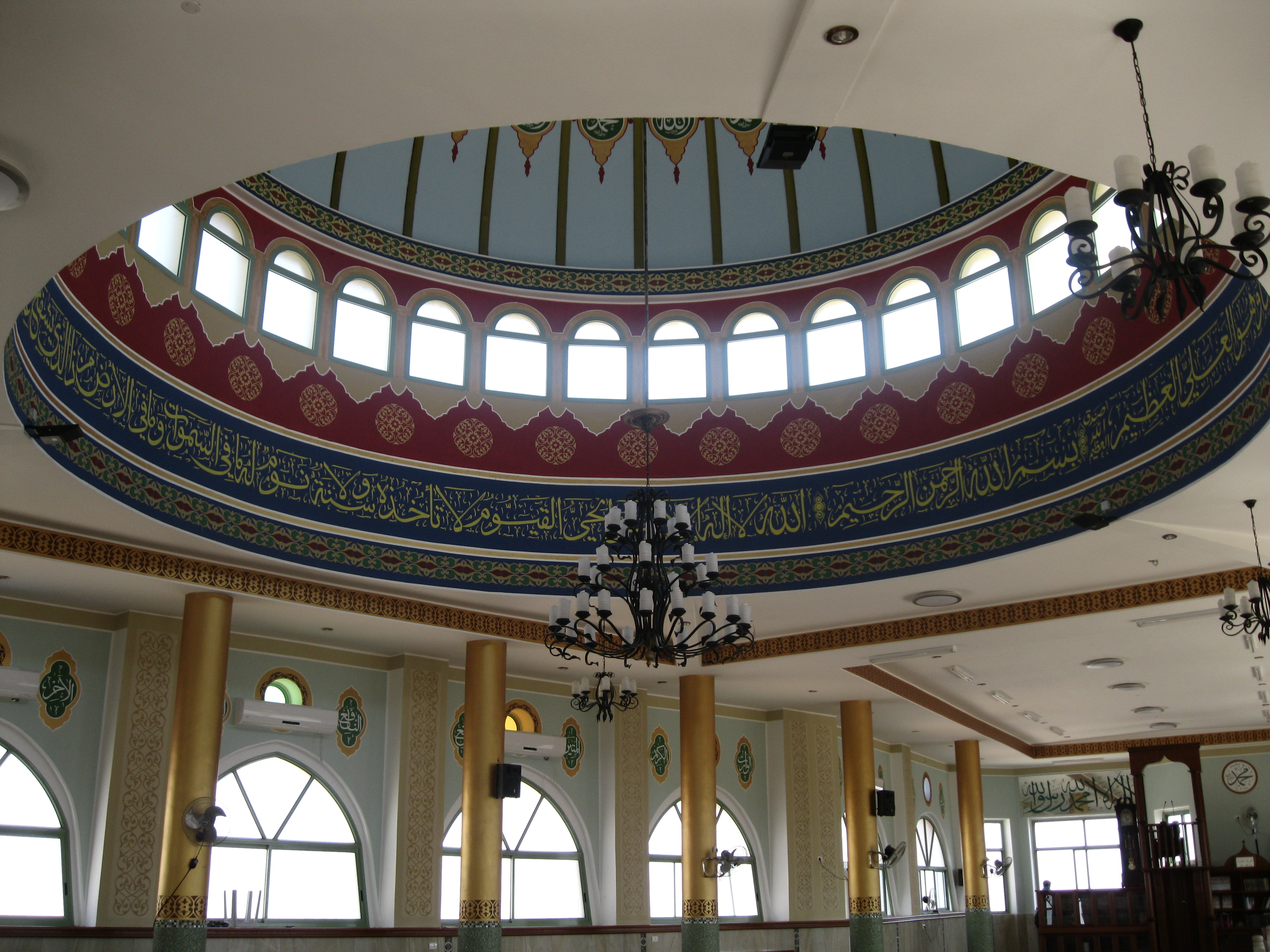 Mosque in Nazareth